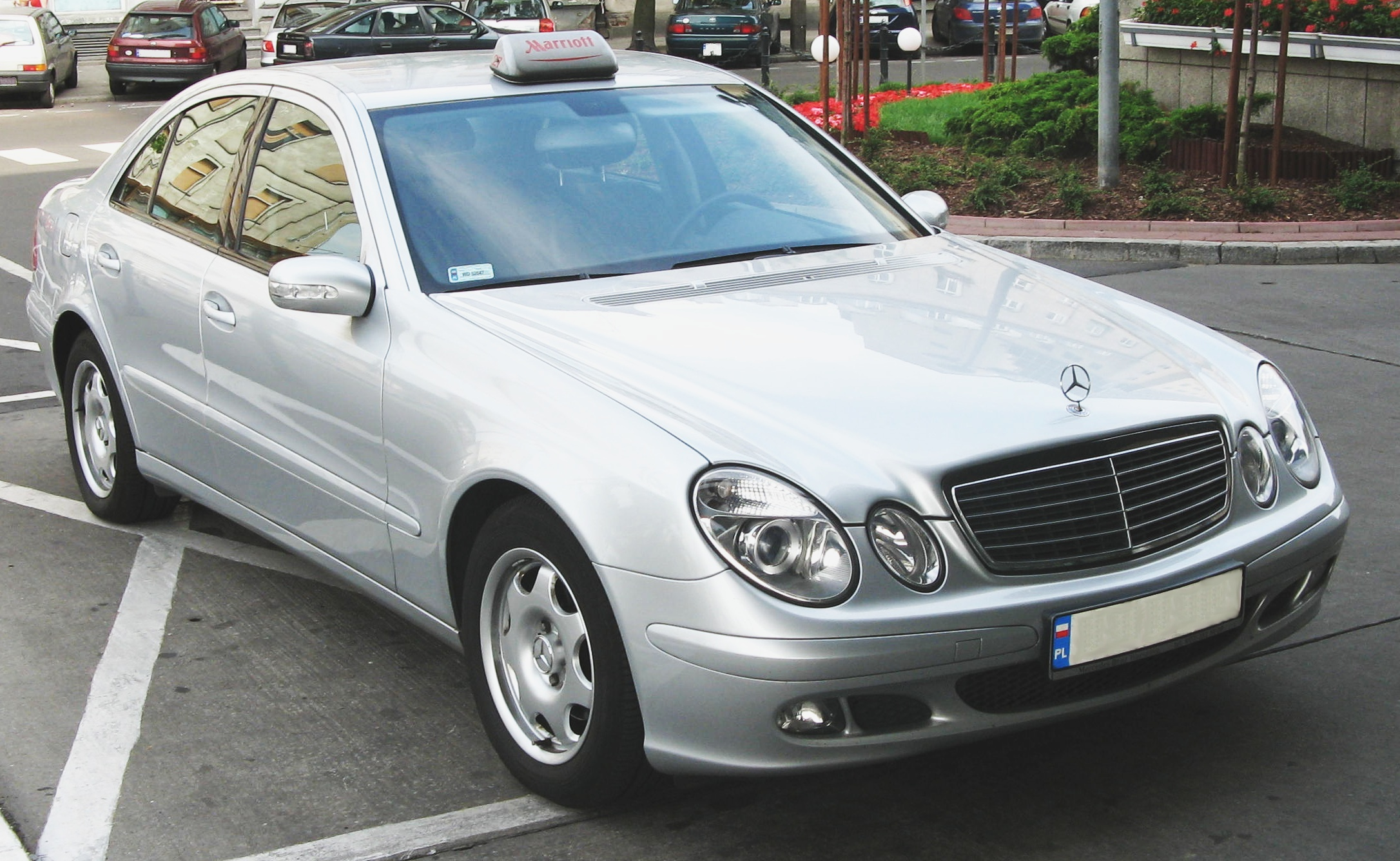 Mercedes-Benz W211 (E-Klasse) sedan, silver, serving as a hotel taxi for the Warsaw Marriott Hotel